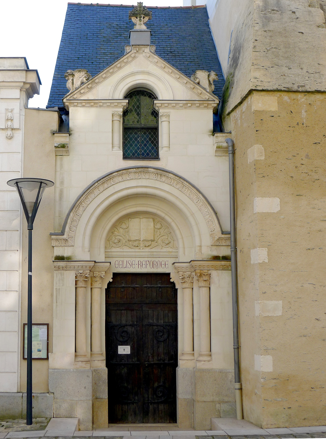 Reformed church (Angers, France)